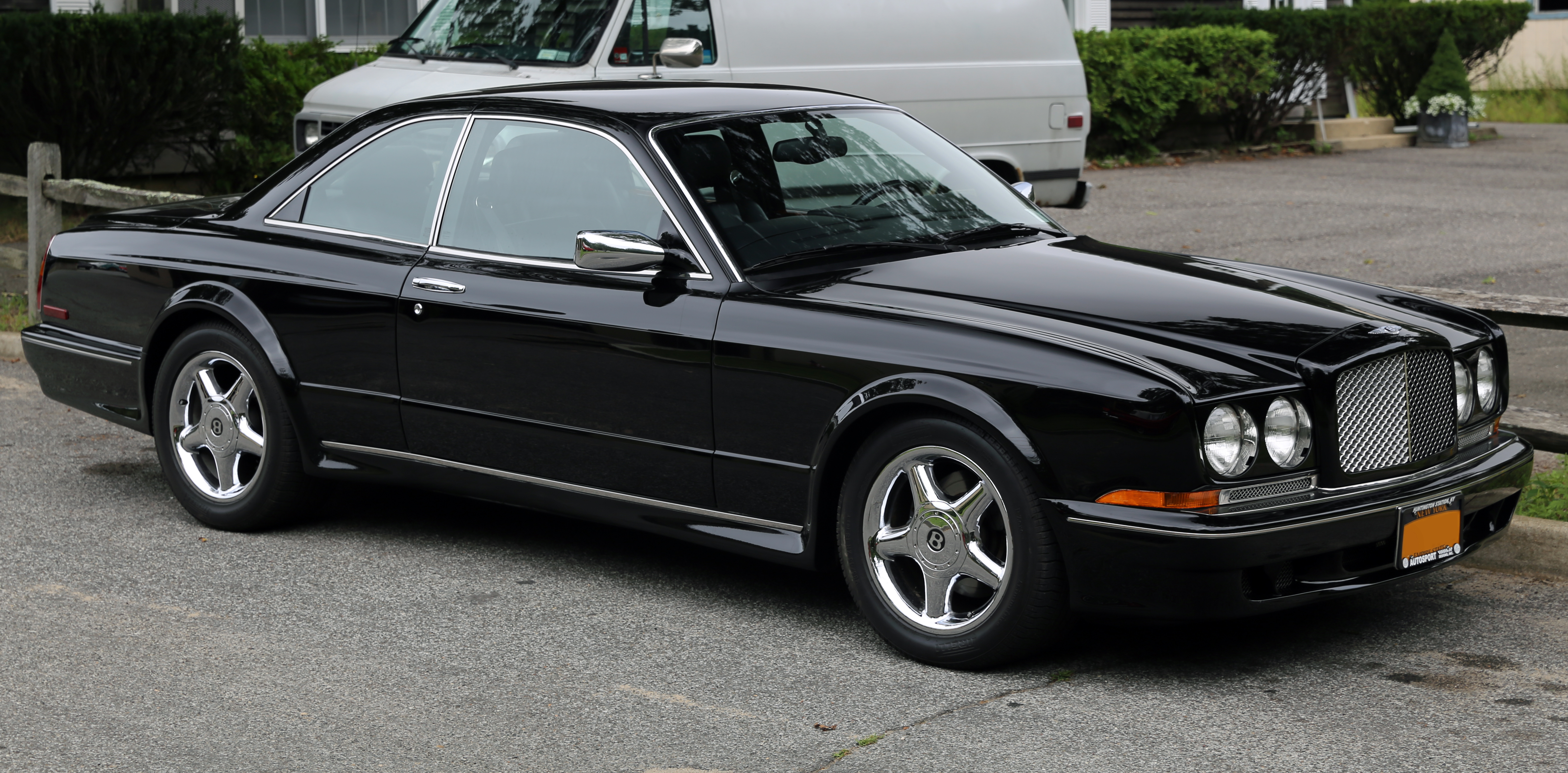 A 2002 Bentley Continental T, a rather late production version (chassis number 1505 - they start at #1001 so this one was built fairly early in 2002).